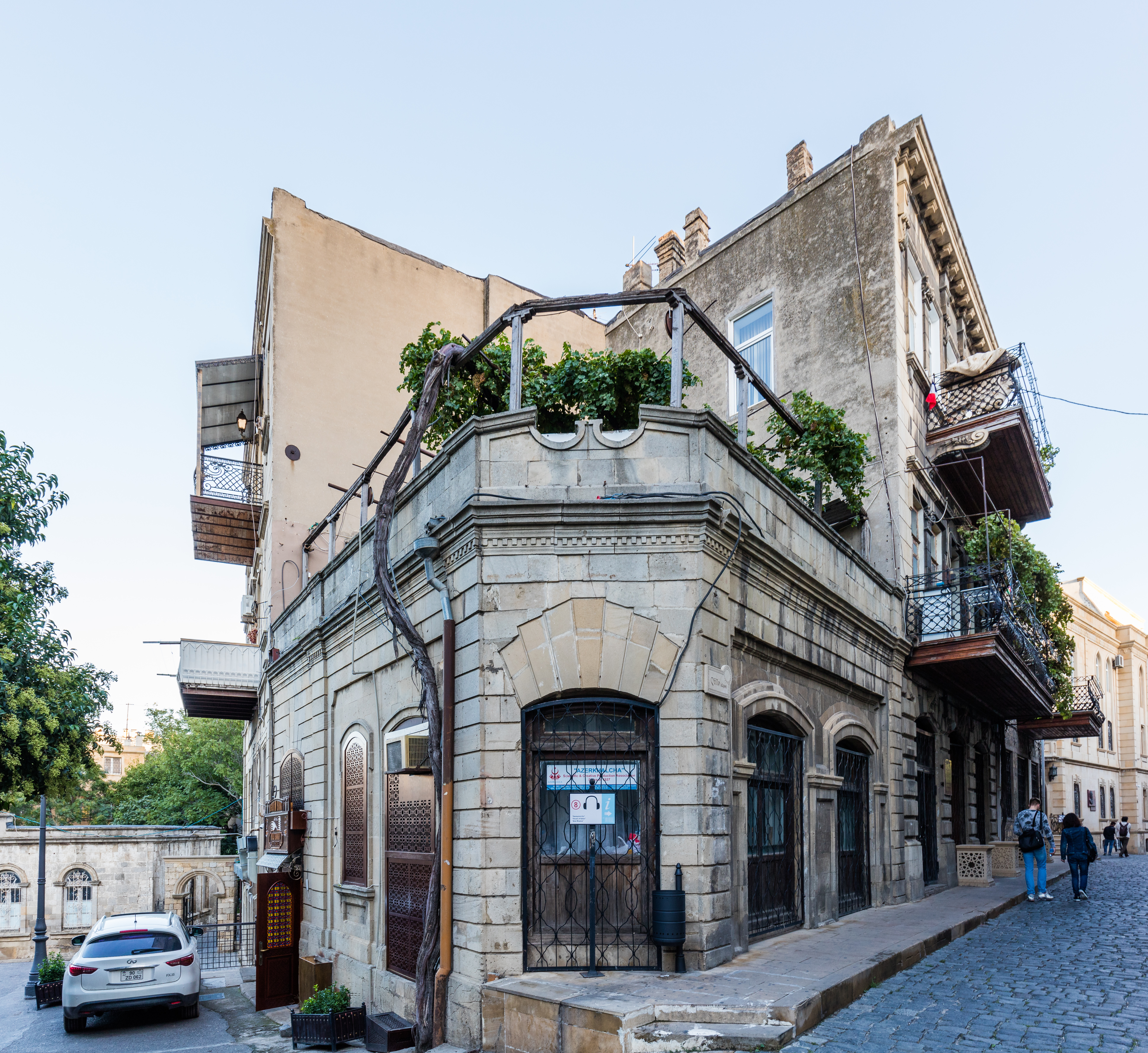 Building in Baku, Azerbaijan